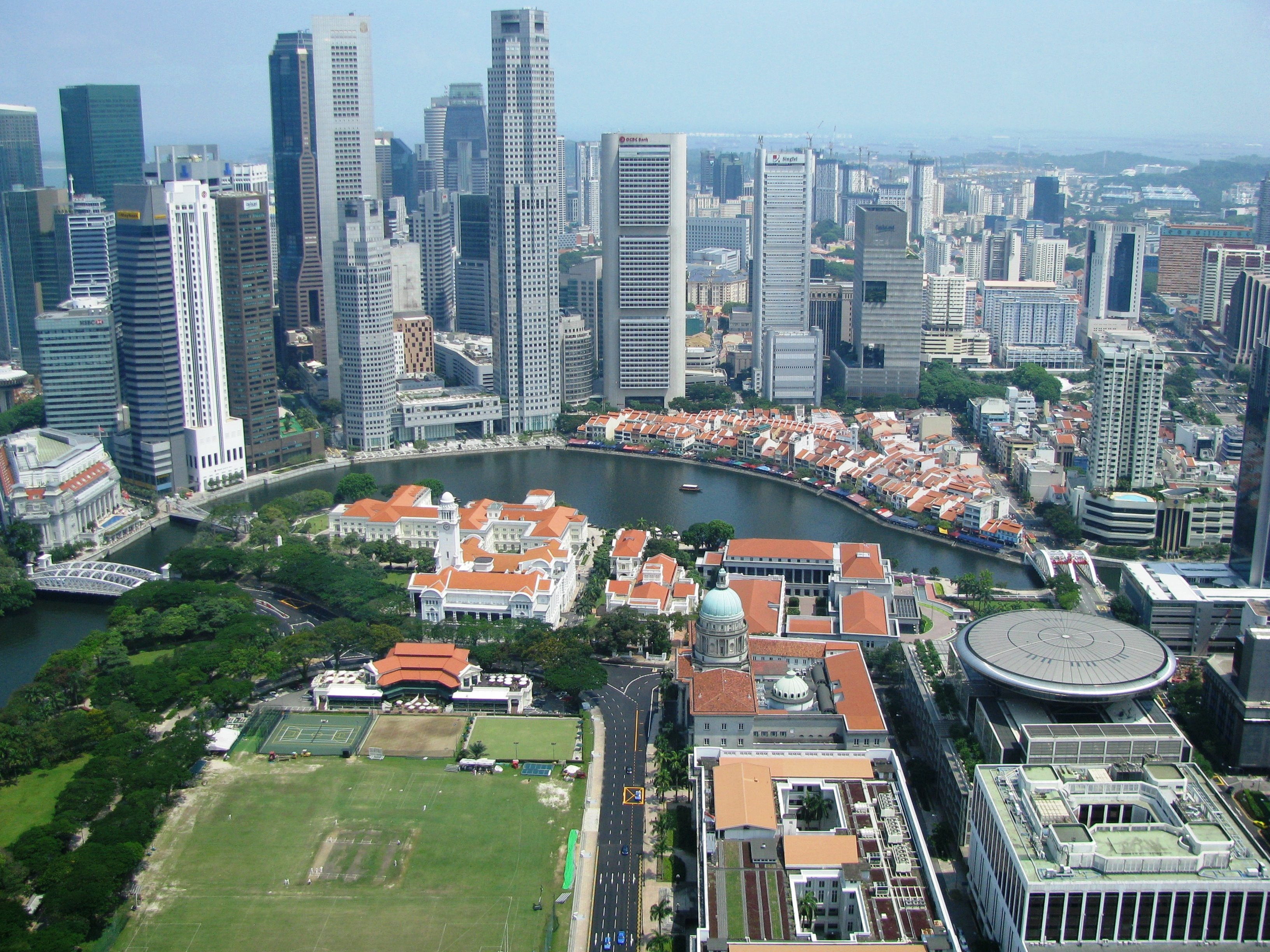 An aerial view of the Civic District (foreground), Singapore River and Central Business District of Singapore.